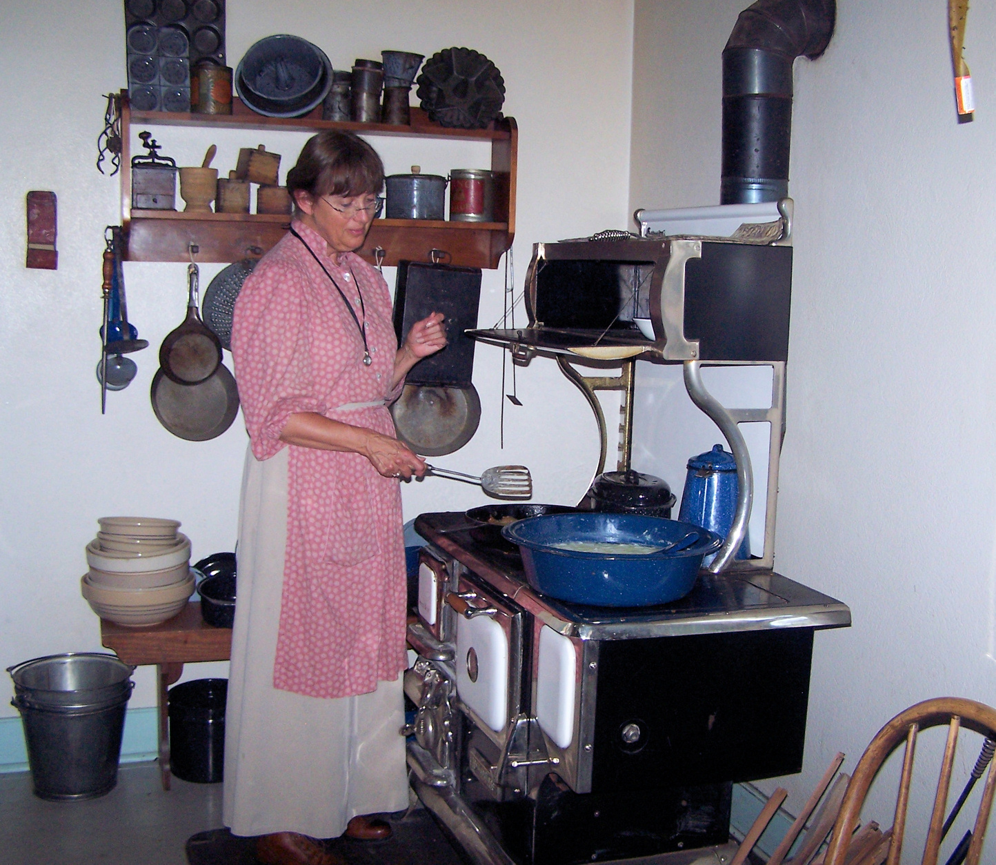 A park interpreter demonstrates a typical rural kitchen of 1918 at the Sauer-Beckmann Farmstead, a living history farm at the Lyndon B. Johnson State Park and Historic Site, Gillespie County, Texas, United States.